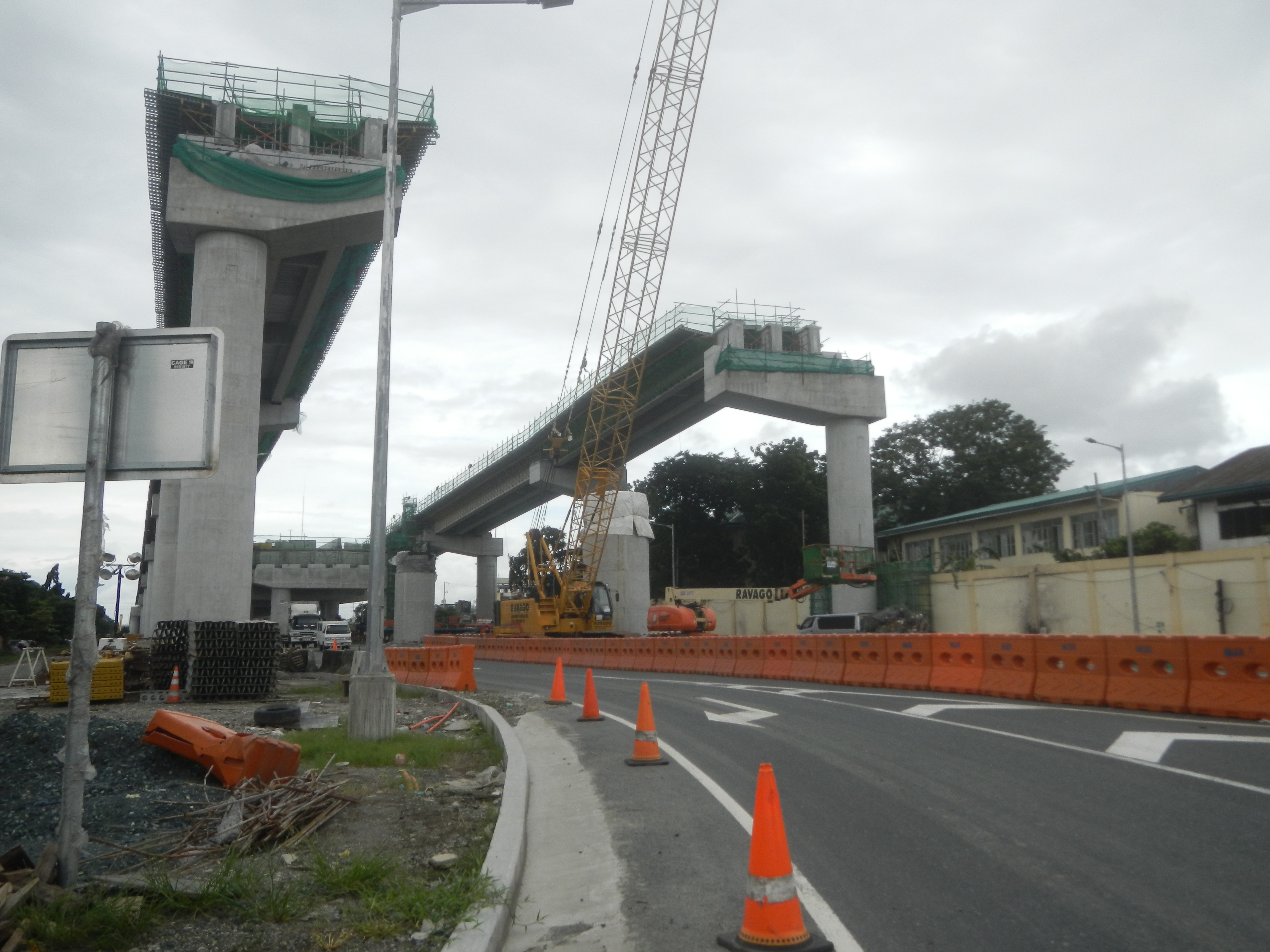 C-3 road Caloocan Barangay 21, Zone 2, District 2, Caloocan City 14.6441, 120.9721 NLEx Harbor Link 10.1 project beam transport and girder erection (C-3 road-Dagat-Dagatan Avenue, Caloocan-Malabon City) to C4-Road corner Dagat-Dagatan Avenue in Malabon Paterio Aquino Avenue Dagat-Dagatan Avenue & C-4 Road Footbridge - Paterio Aquino Avenue Intersection, Barangay 8, Sangandaan, Caloocan City & Longos, Malabon City C-4 Road corner Dagat-Dagatan Avenue Footbridge (Malabon) 14°39'27"N 120°57'42"E Dagat-dagatan Avenue 14°39'9"N 120°57'54"E C-4 Road corner Dagat-Dagatan Avenue (Malabon) 14°39'27"N 120°57'42"E in the List of barangays of Metro Manila, Legislative districts of Caloocan District 2, Barangays of Caloocan Barangay 21, Zone 2, District 2, Caloocan City 14.6441, 120.9721 Barangays 4 and 8, Sangandaan, Zone 1, District II, (Caloocan City South) and Barangays 9, 10, 11, 12, 13 and 14, Zone 2, Dagat-Dagatan District, Caloocan City South, Caloocan City in front of Barangay Longos Malabon 14°39'9"N 120°57'38"E Malabon City Aquino Avenue, Metro Manila Road Network of the Circumferential Road 4 (Note: Judge Florentino Floro, the owner, to repeat, Donor Florentino Floro of all these photos hereby donate gratuitously, freely and unconditionally all these photos to and for Wikimedia Commons, exclusively, for public use of the public domain, and again without any condition whatsoever).